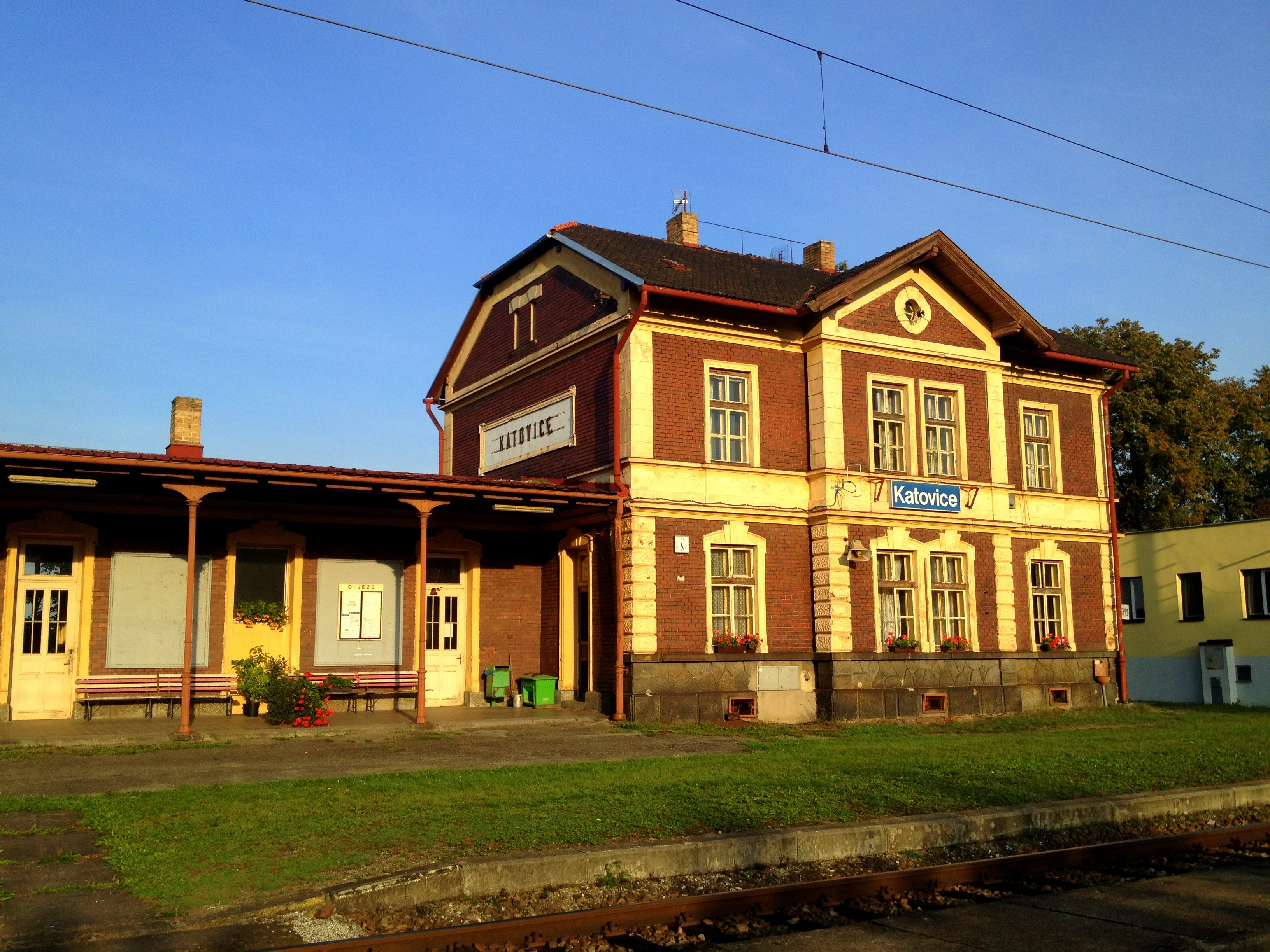 Railway station of Katovice